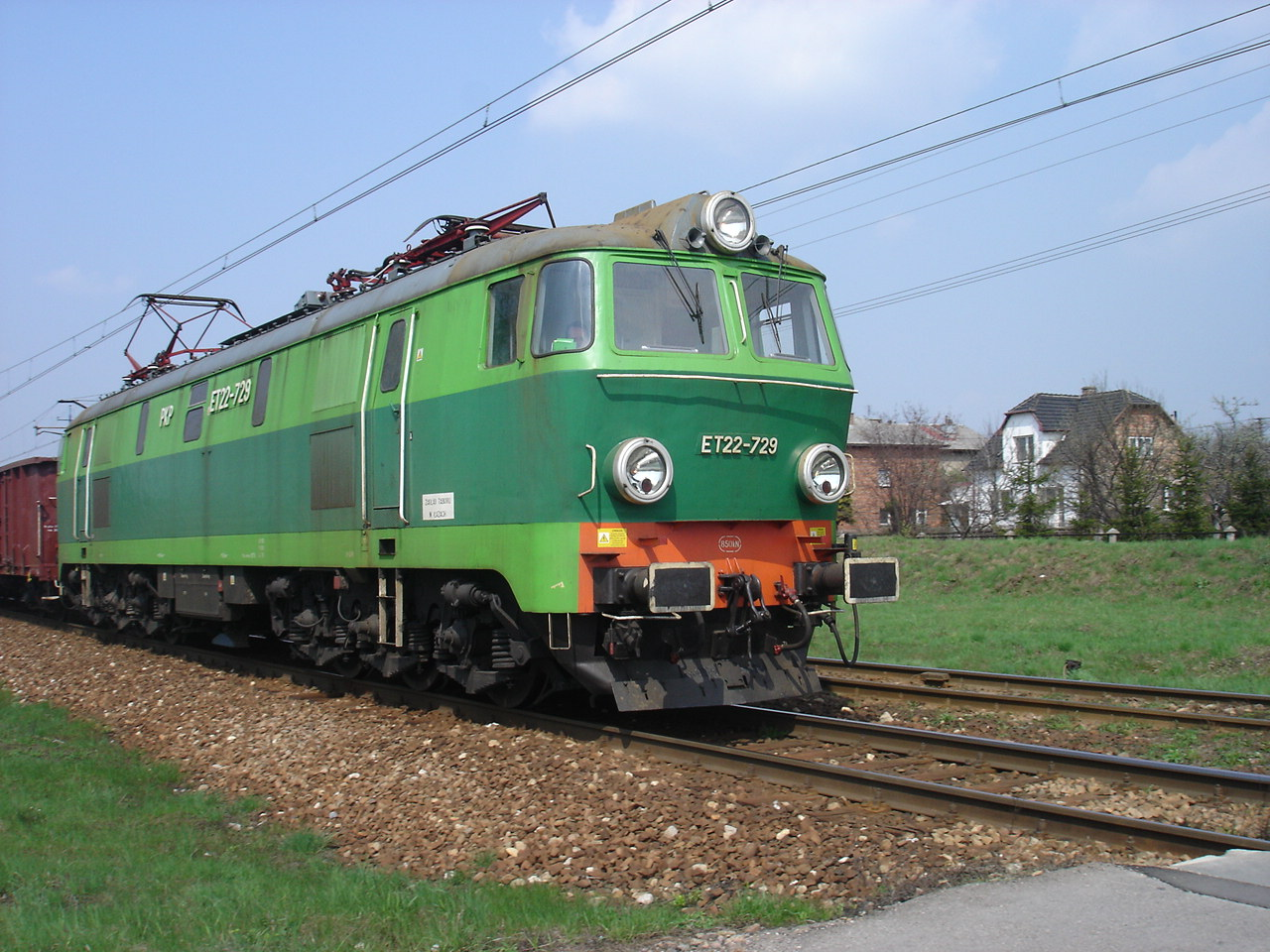 Photo taken by myself in Dulowa, Poland.